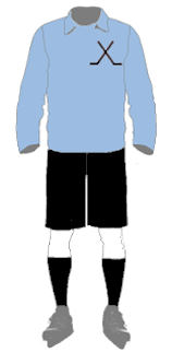 Representation of the 1909 uniform for team New South Wales, ice hockey Australia. Other information This is completely my own work, created to provide a representation of uniform worn by the 1909 state team for Victoria - based on old photographs and descriptions of the uniform. Please feel free to share and use this file.